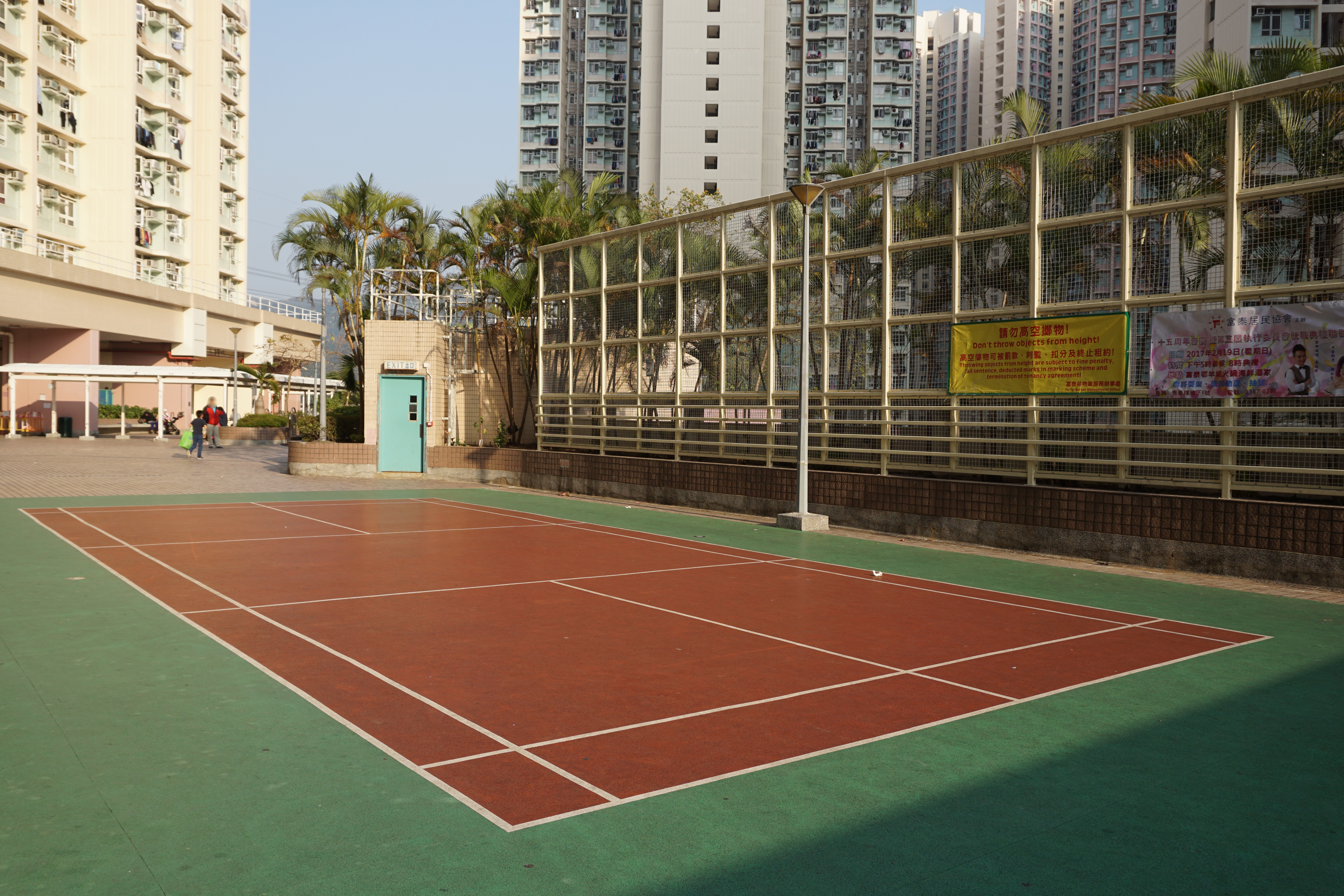 Fu Tai Estate in Tuen Mun, Hong Kong.